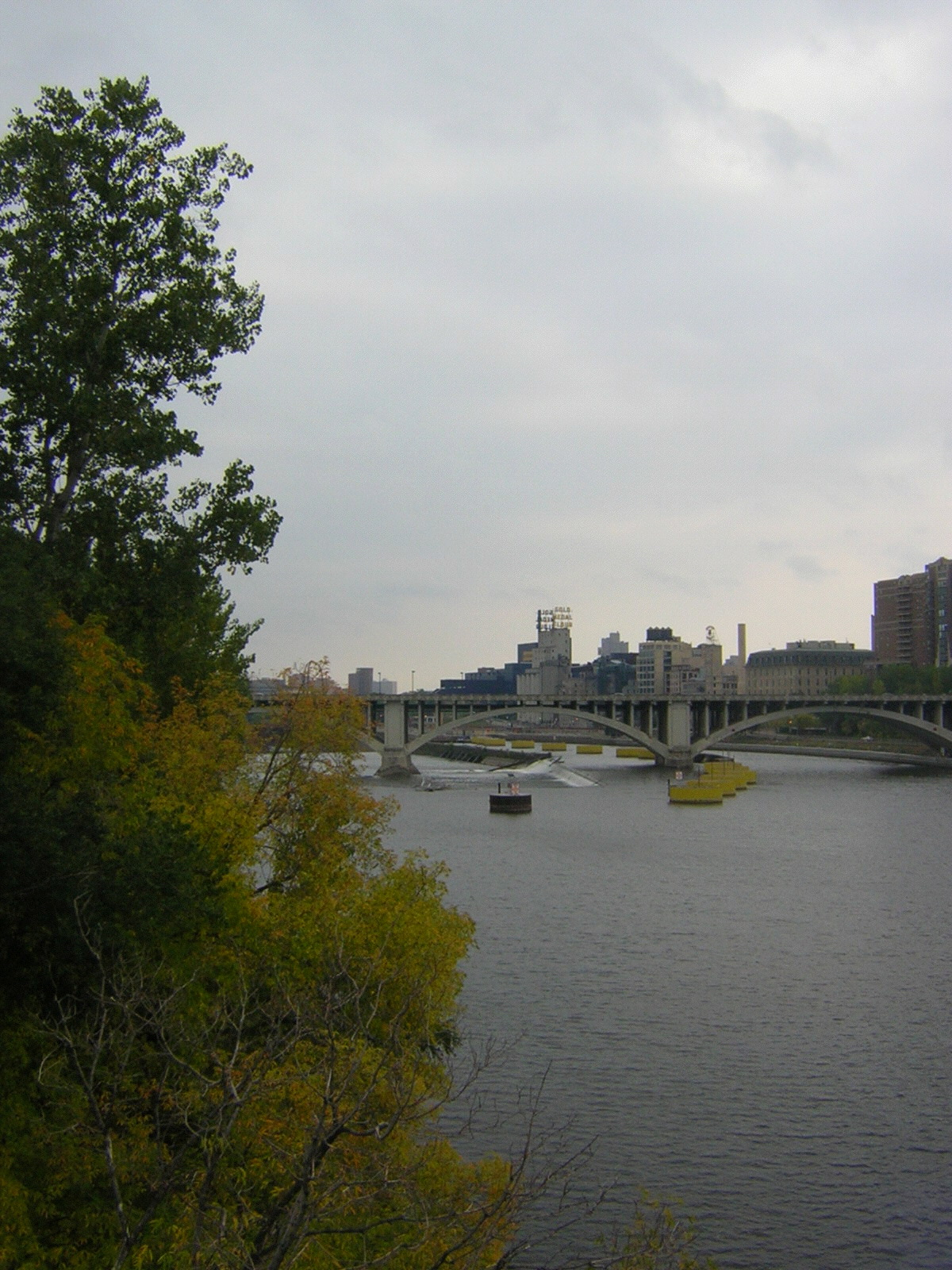 Mississippi River at Minneapolis, Minnesota, USA